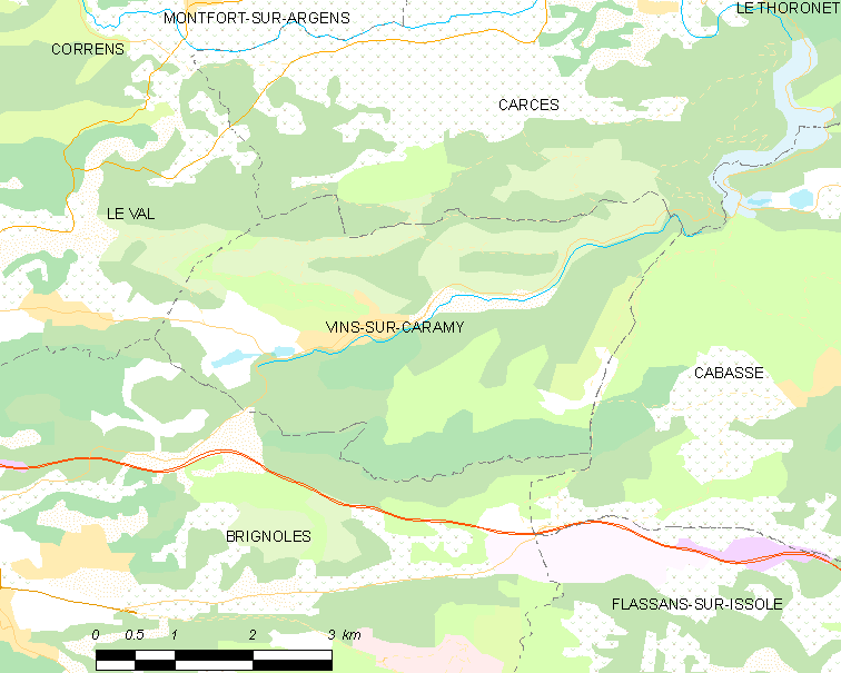 Map of French municipality Vins-sur-Caramy